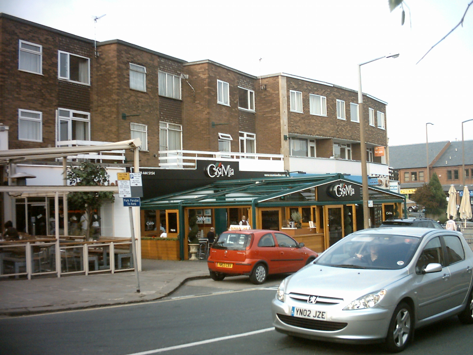 Shops and restaurants on Stainbeck Lane, Chapel Allerton, Leeds